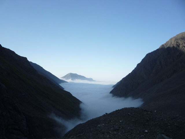 Karmadon Gorge, North Ossetia-Alania